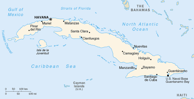 Map of Cuba